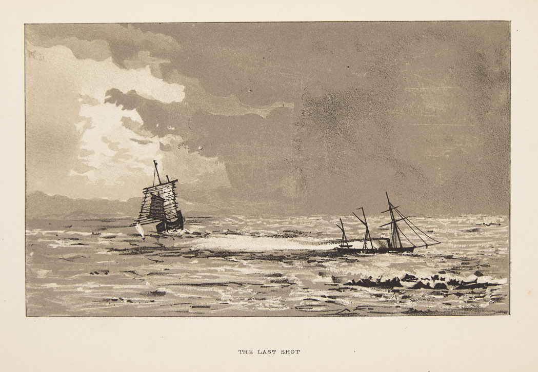 "The Last Shot " a plate taken from "Notes and Sketches from the Wild Coasts of Nipon. With chapters of cruising after pirates in Chinese waters." by Henry Craven St John, published David Douglas, Edinburgh, 1880. 8 1/8 x 6 1/2 inches (20.5 x 14 cm); xxiv, 392 pp.; with 5 maps and ten plates, and other illustrations in text. ISBN 1358749280, 9781358749285